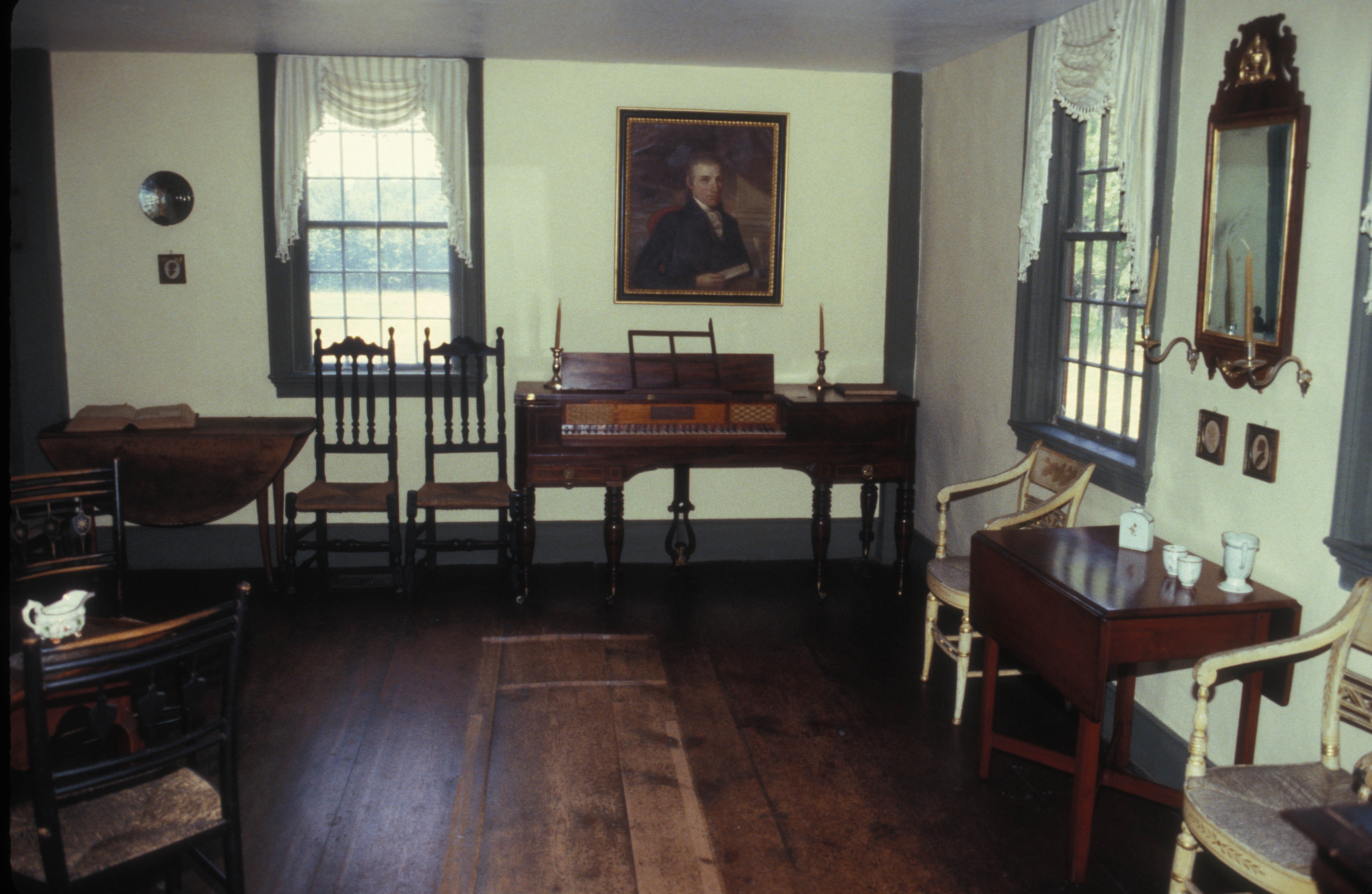 INTERIOR OF THE HALE HOMESTEAD. NATHAN HALE NEVER LIVED IN HIS HOME BUT PORTIONS OF THE HOME HE DID LIVE IN NEARBY HAVE BEEN PRESERVED IN THIS BUILDING